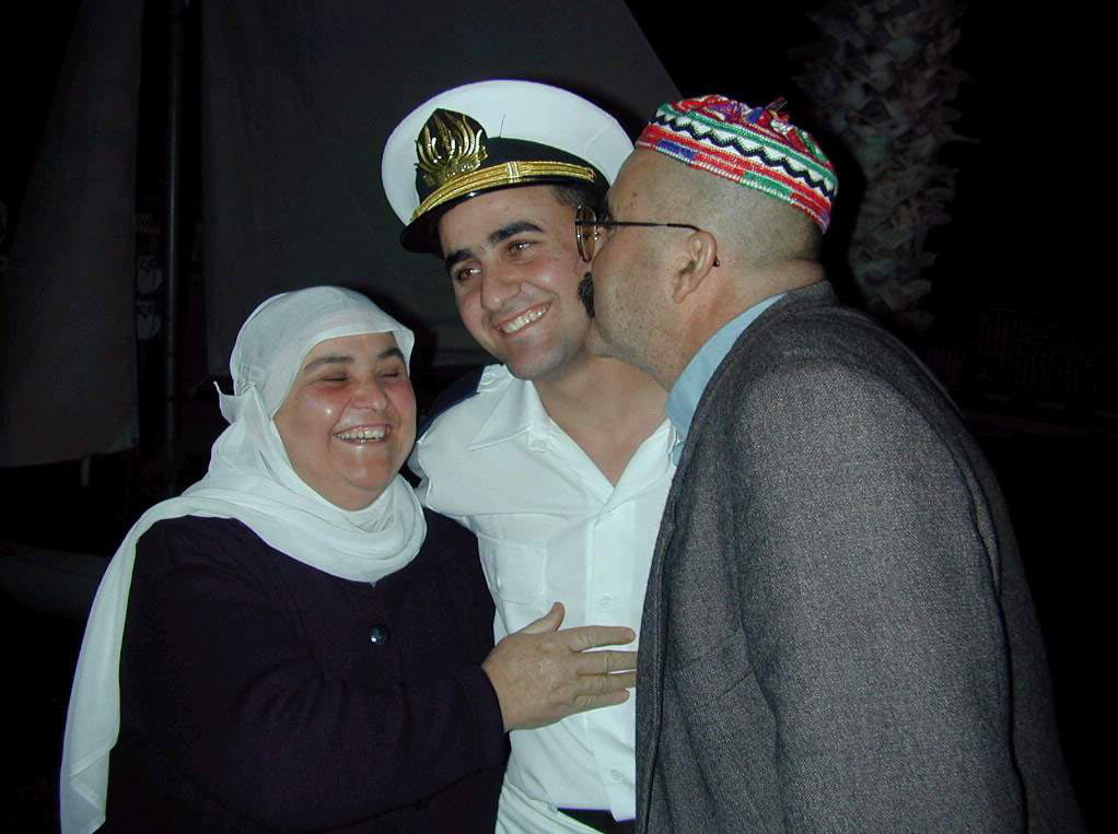 The Naval Officer Tamim Sa'ad celebrates with his family during the ceremony marking the end of the elite and challenging Naval Officer's course of the Israeli Navy in Haifa.